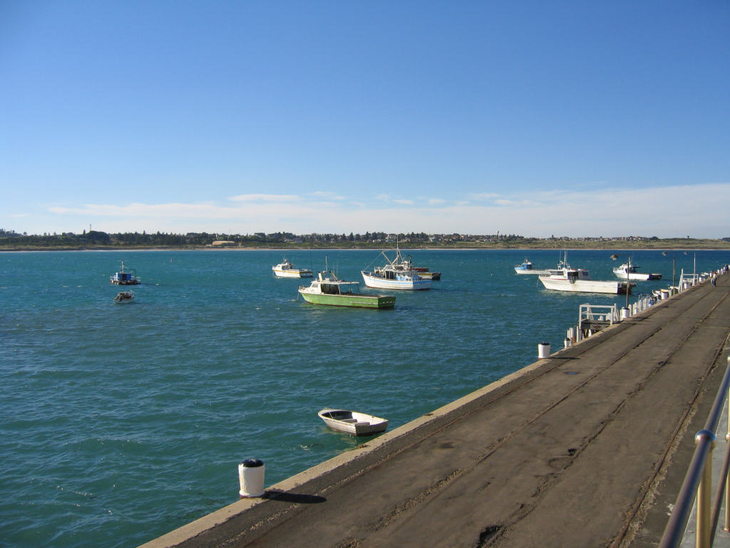 Warrnambool Harbour - Victorian, Australia